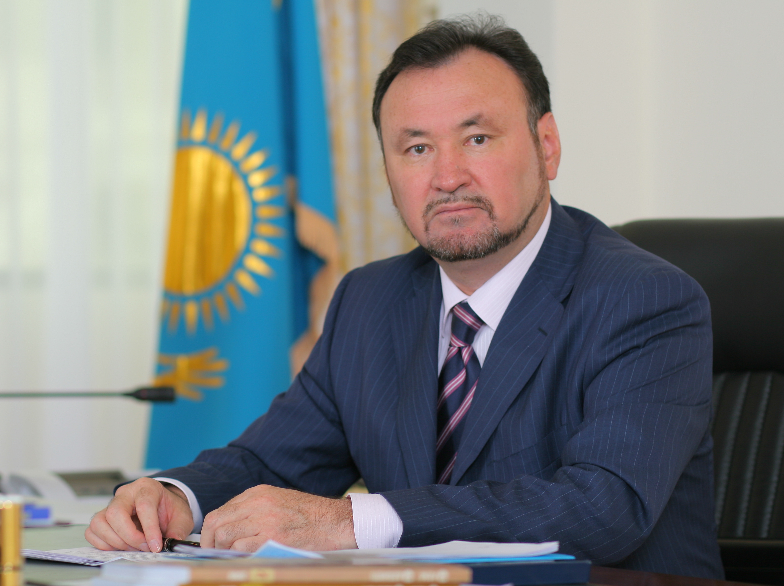 Mukhtar Kul-Mukhammed